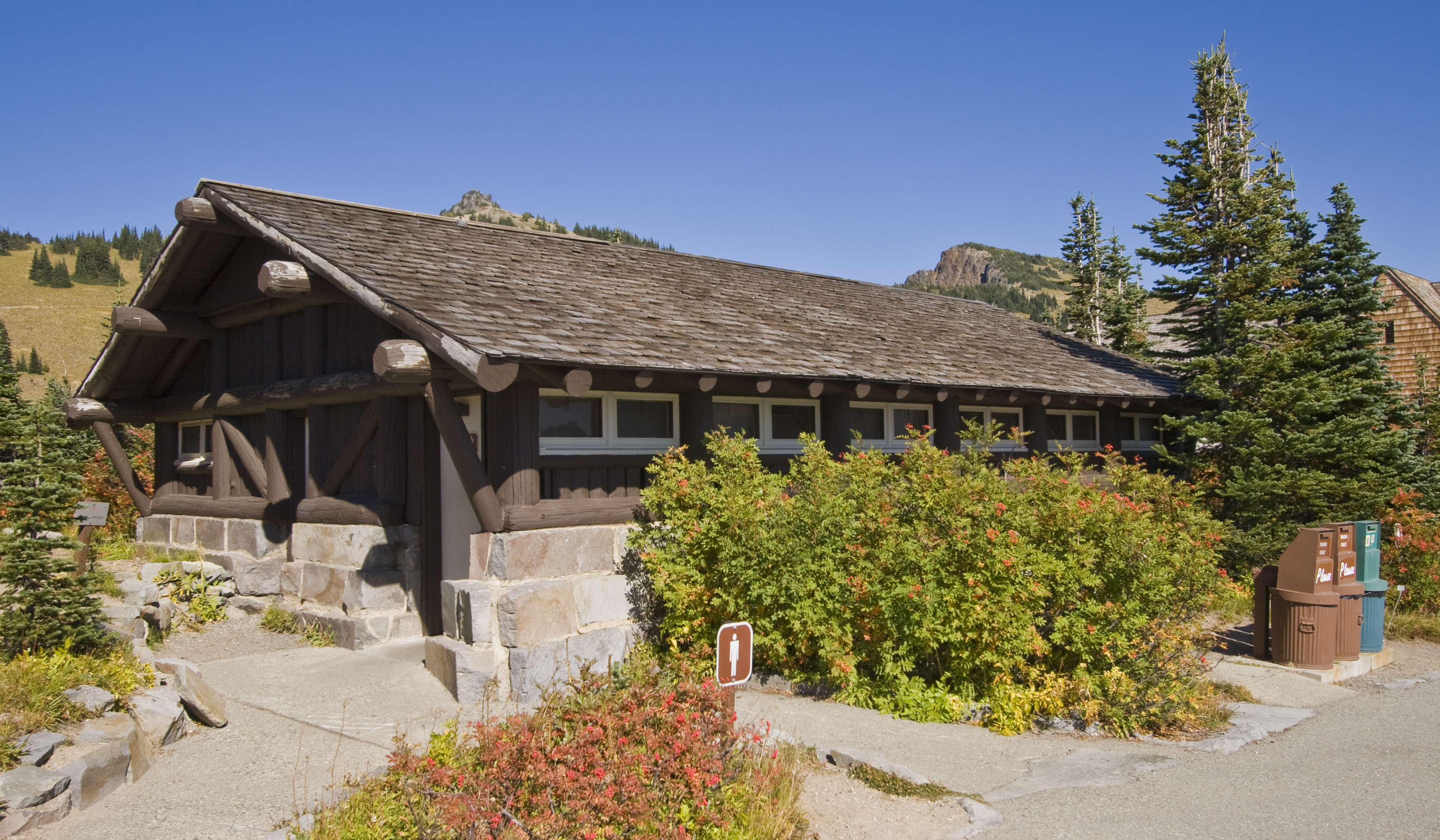 Sunrise Comfort Station, Mount Rainier National Park, Washington. The 1930 building itself is listed on the National Register of Historic Places, as is the Sunrise Historic District in which it is located.